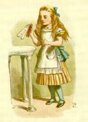 Alice in Wonderland, John Tenniel, 1865